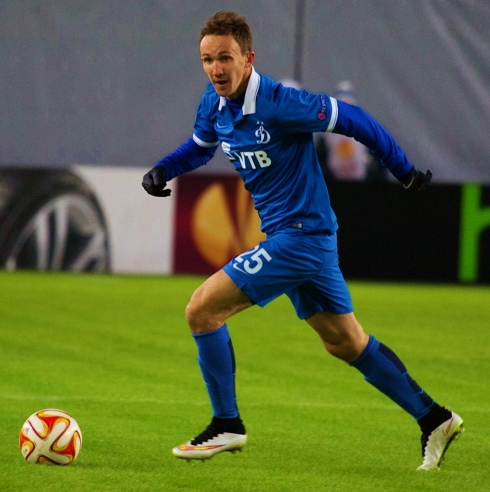 Aleksei Kozlov